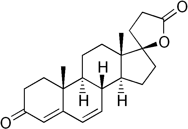 chemical structure of canrenone